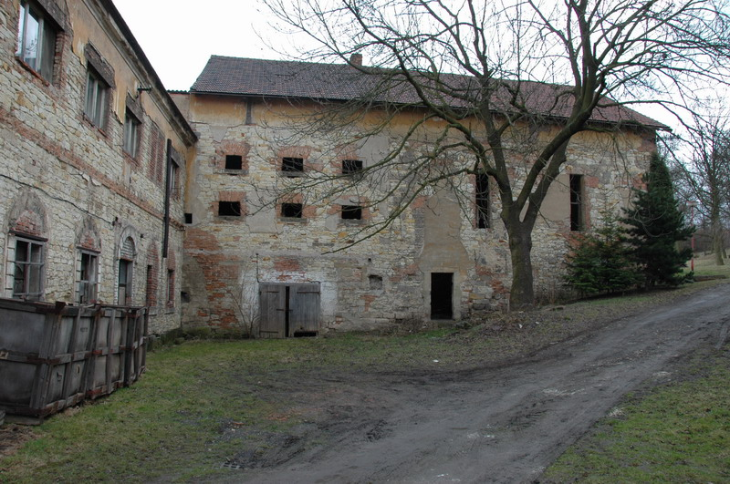 Castle brewery Peruc. Czech republic